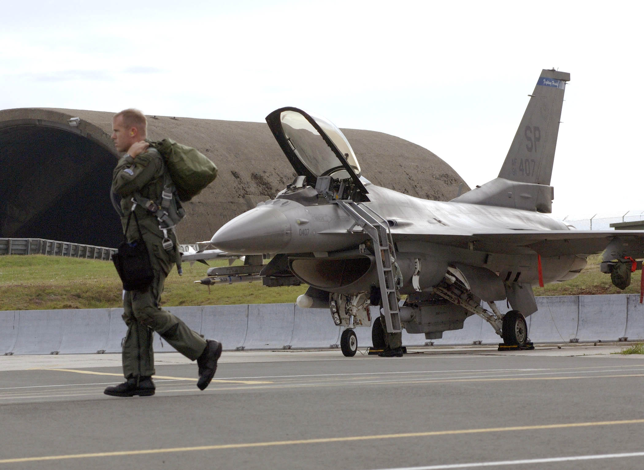 Maj. A F-16C pilot from 23rd Fighter Squadron heads for base ops in Spangdahlem AB after completing a mission here July